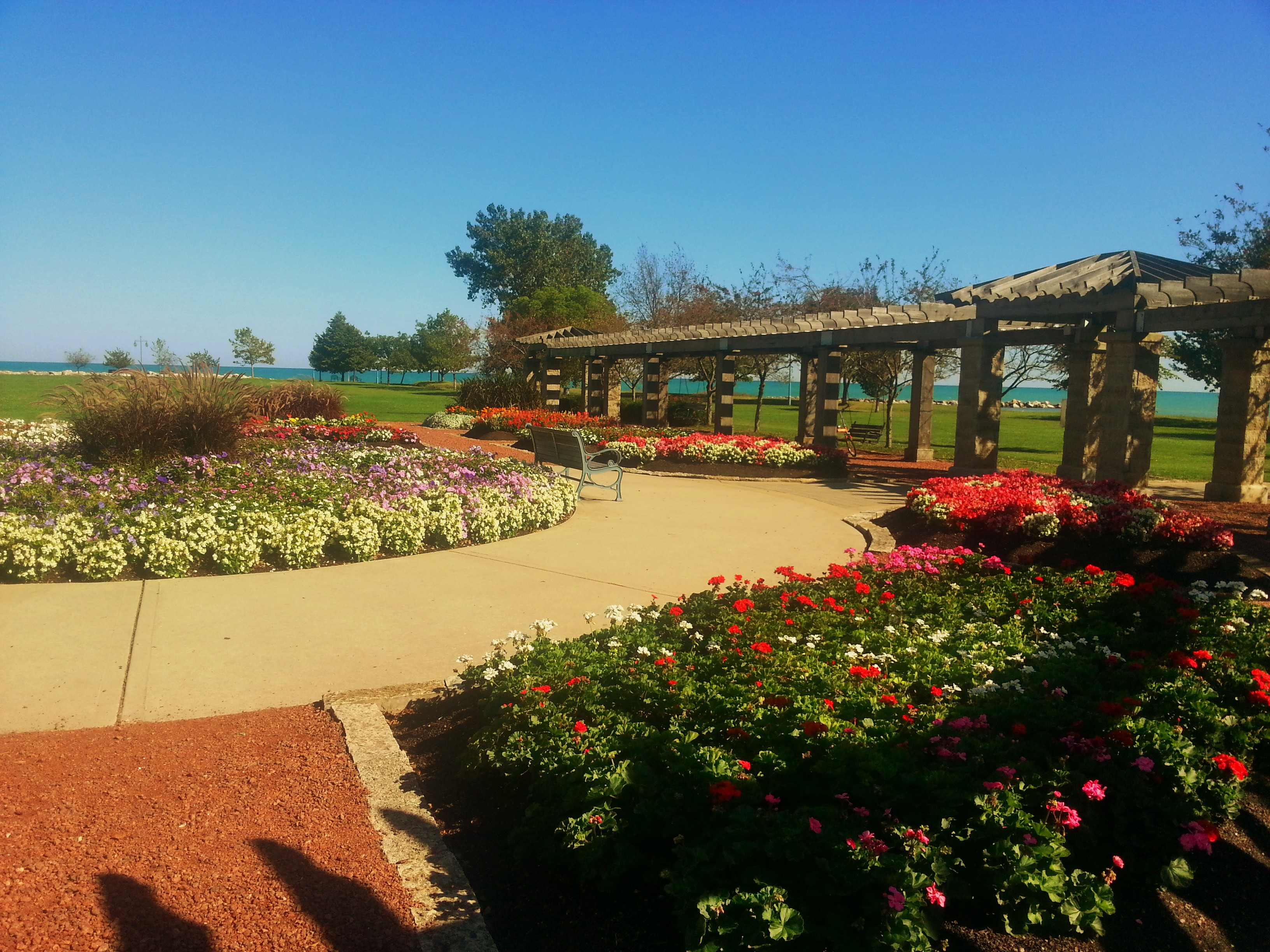 WolfenButtel Park in Kenosha, Wisconsin USA